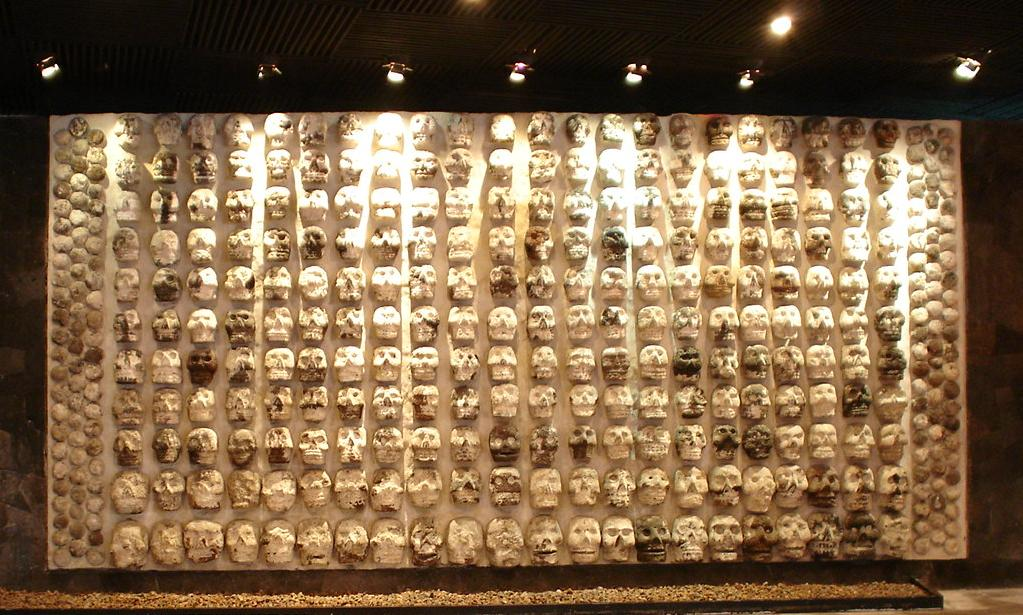 A Tzompantli is a type wooden rack or palisade documented in several Mesoamerican civilizations, which was used for the public display of human skulls, typically those of war captives or other sacrificial victims. Its precise etymology is uncertain, although its general interpretation is "skull rack" or "wall of skulls". It may be seen to be a compound of the Nahuatl words tzontecomatl ("skull"; from tzontli or tzom- "hair", "scalp" and tecomatl ("gourd" or "container"), and pamitl ("banner"). This derivation has been ascribed to explain the depictions in several codices which associate these with banners; however, F. Karttunen has proposed that pantli means just "row" or "wall".